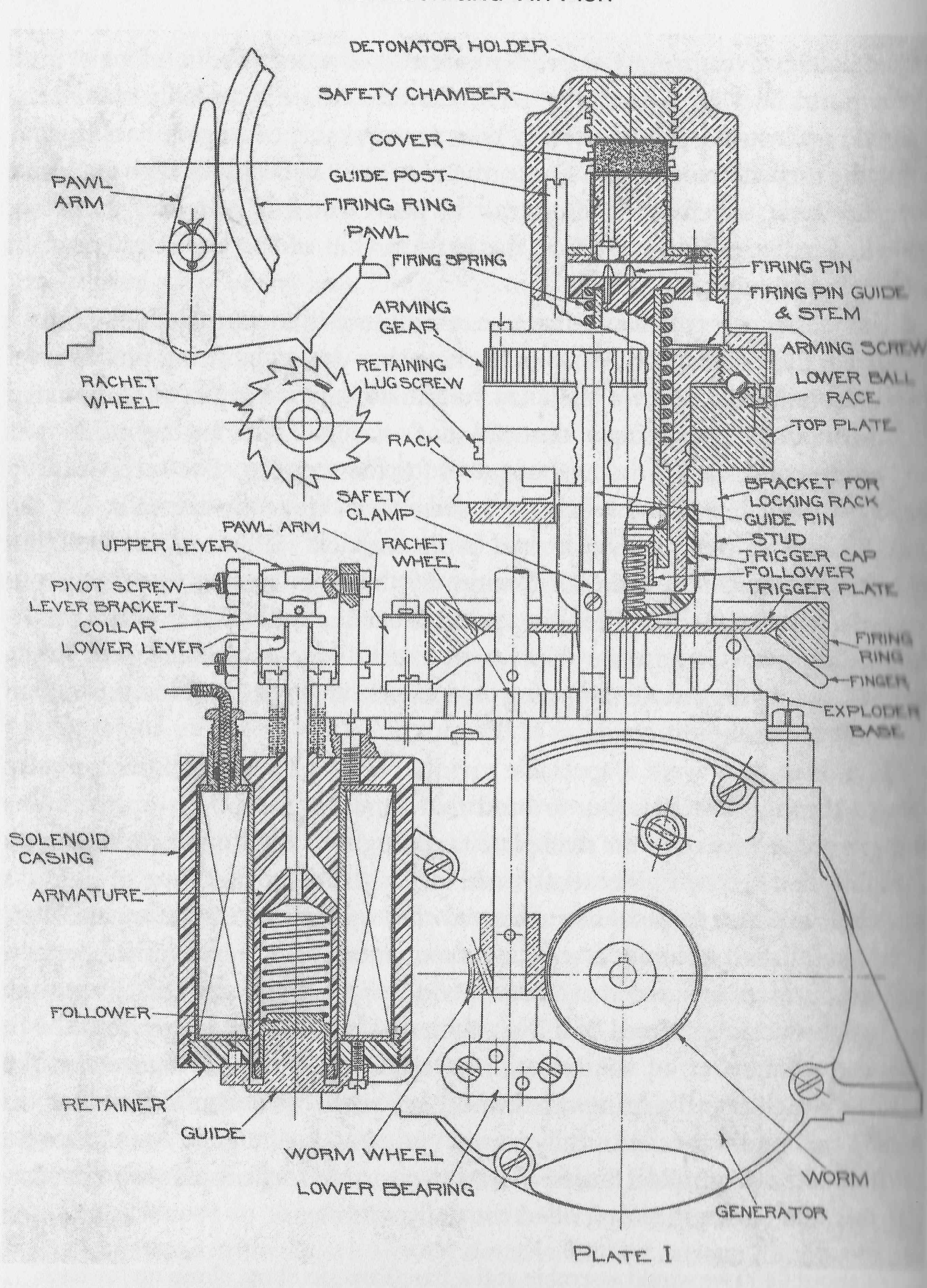 Mechanical drawing of the Mark 6 Mod 1 exploder from Ordinance Pamphlet 632